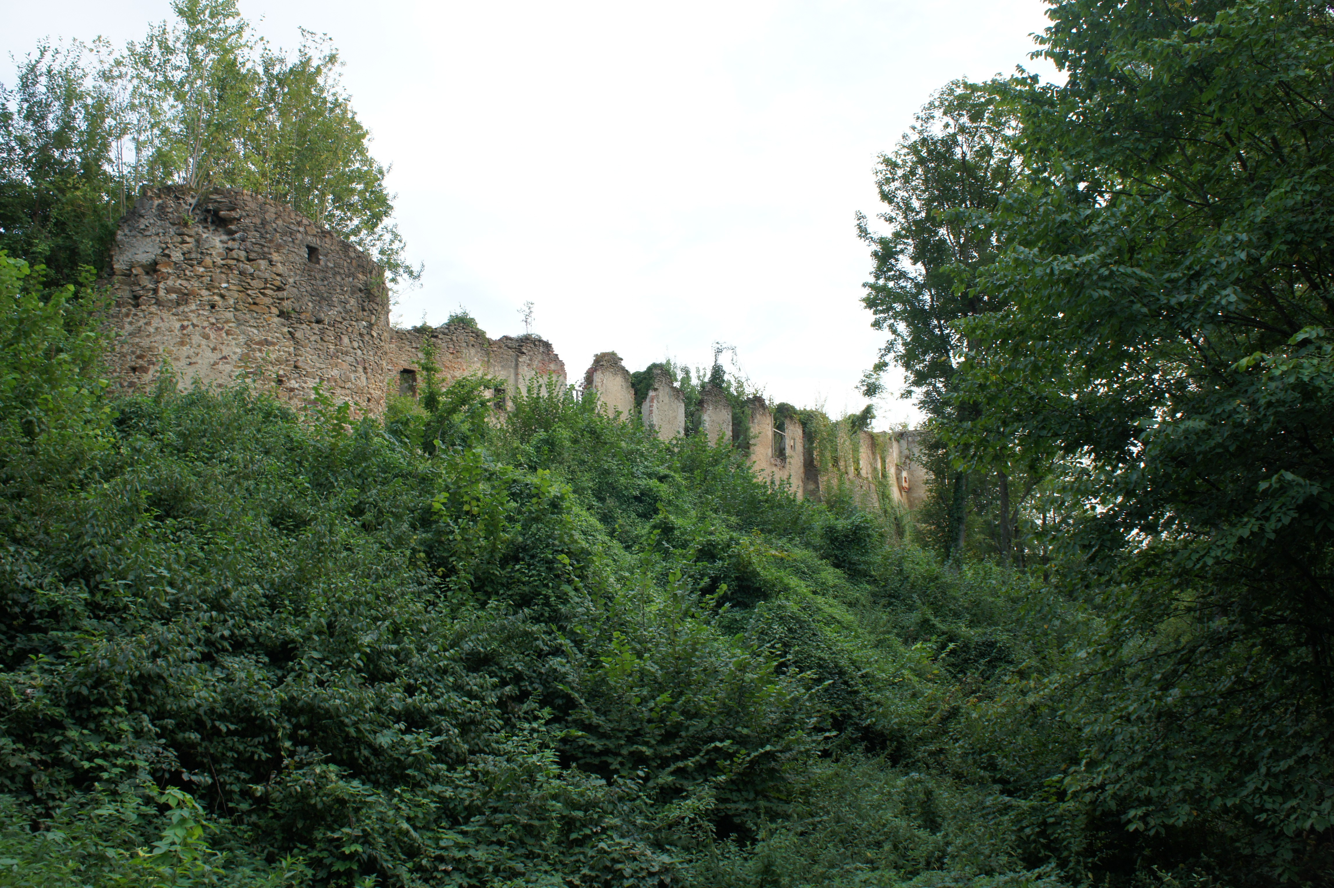 Castle ruin Bärnegg, Elsenau, Schäffern, Austria